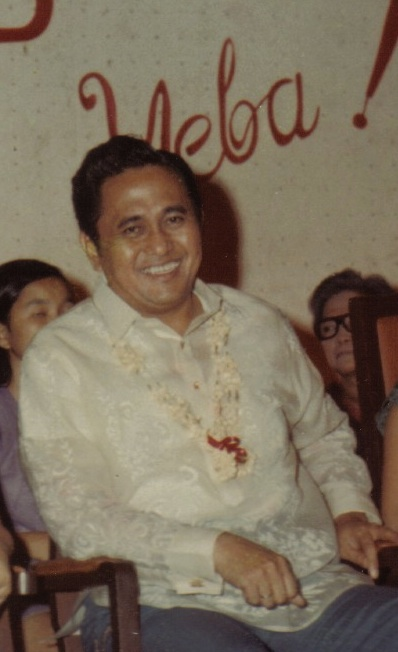 Portrait of Antonio J. Villegas while attending a Manila city event in 1970.